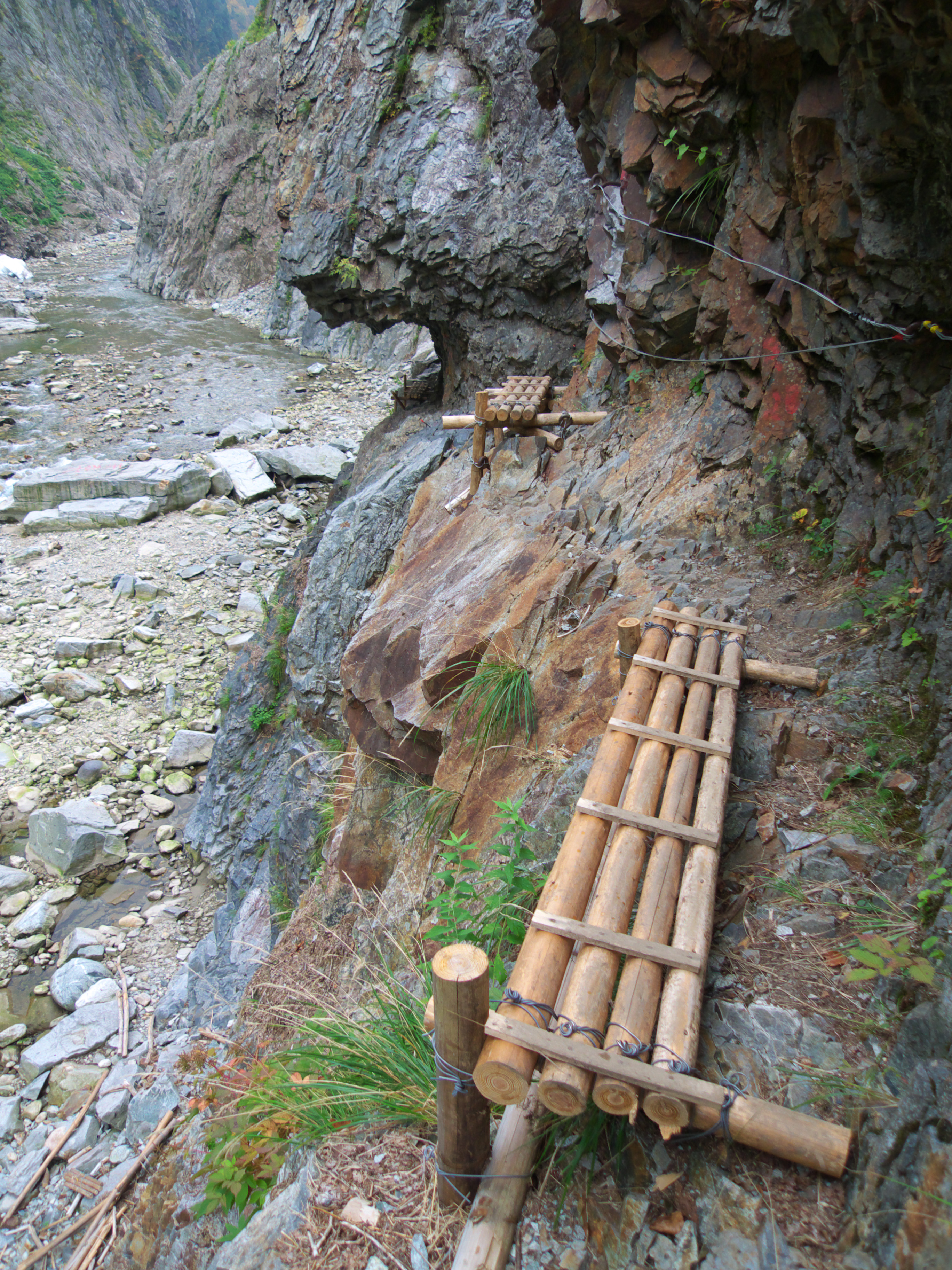 Nichiden hodo ("Nichiden trail") along the upper part of Kurobe River, in Tateyama, Toyama, Japan. Taken near Kurobe-bessan-dani Valley